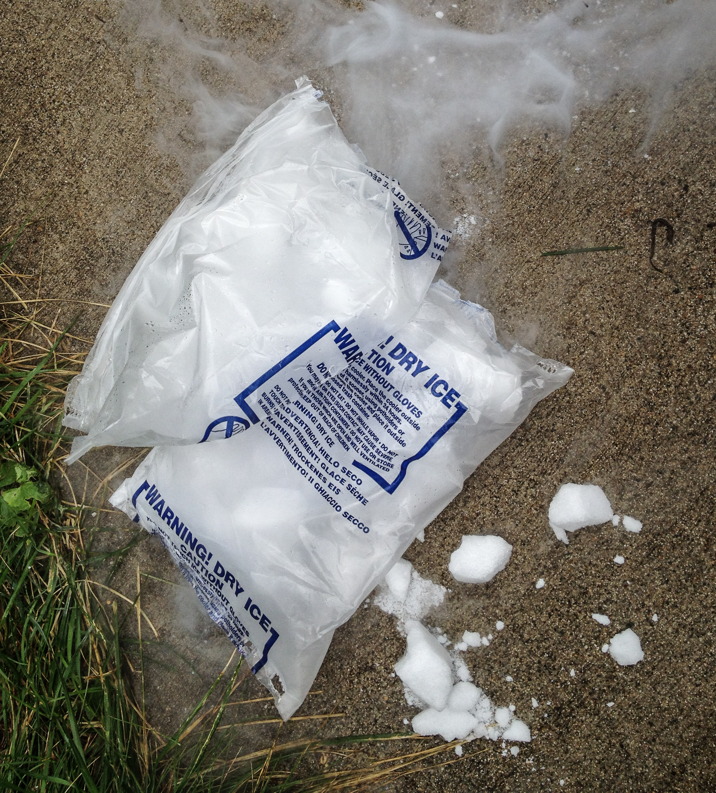 Dry Ice Vapor